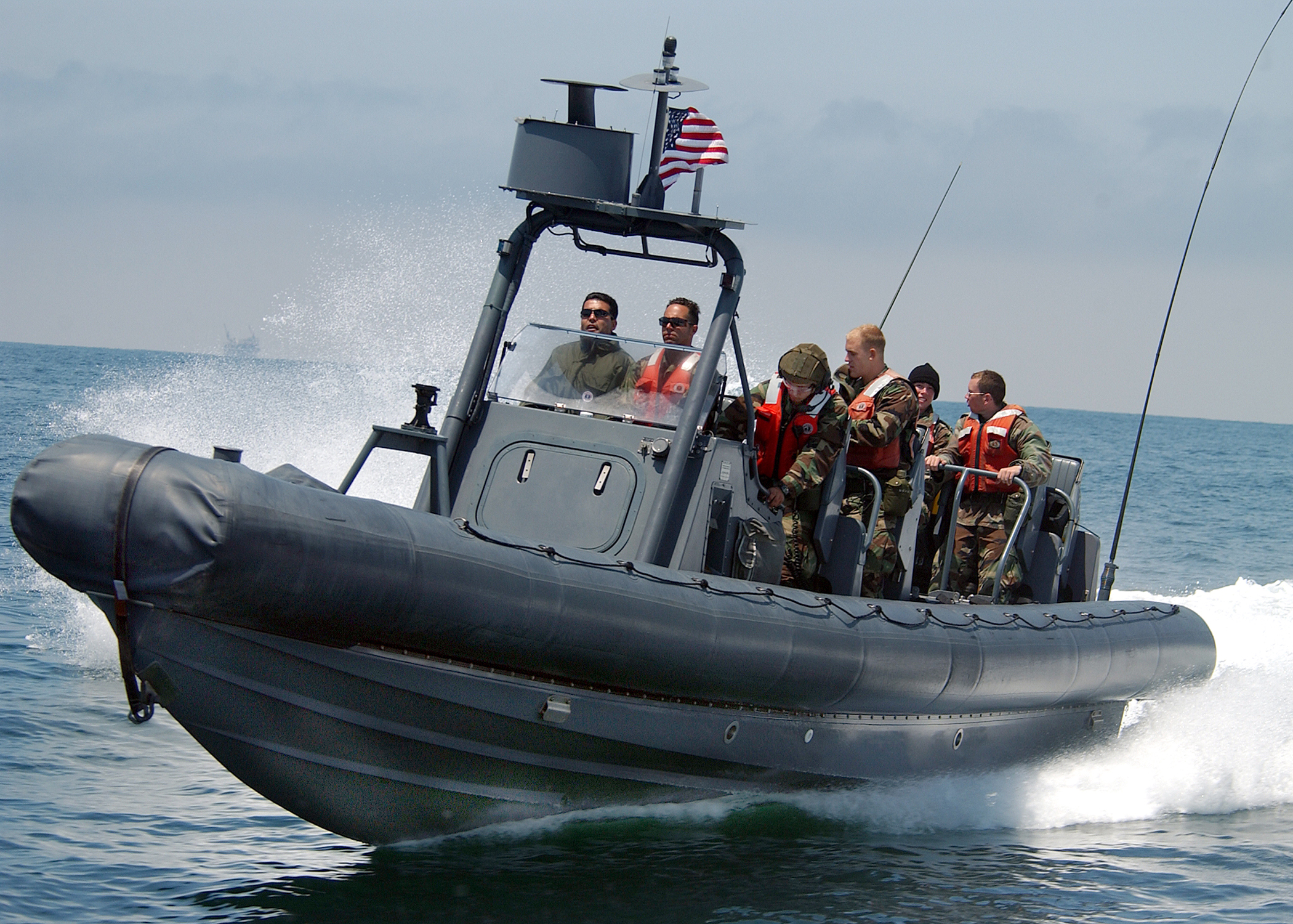 San Diego, Calif. (Sep. 22, 2003) -- Slicing across the surface of the water, members of Special Warfare Combat Craft (SWCC) Class 45 familiarize themselves with the maneuvering capabilities of their Ridged Hull Inflatable Boat (RHIB) during a day of training off the Pacific coast. U.S. Navy photo by Photographer's Mate 3rd Class John DeCoursey. (RELEASED)